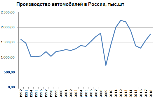 Dymamics of automobile production in Russia, 2000-2008 (both cars and trucks)